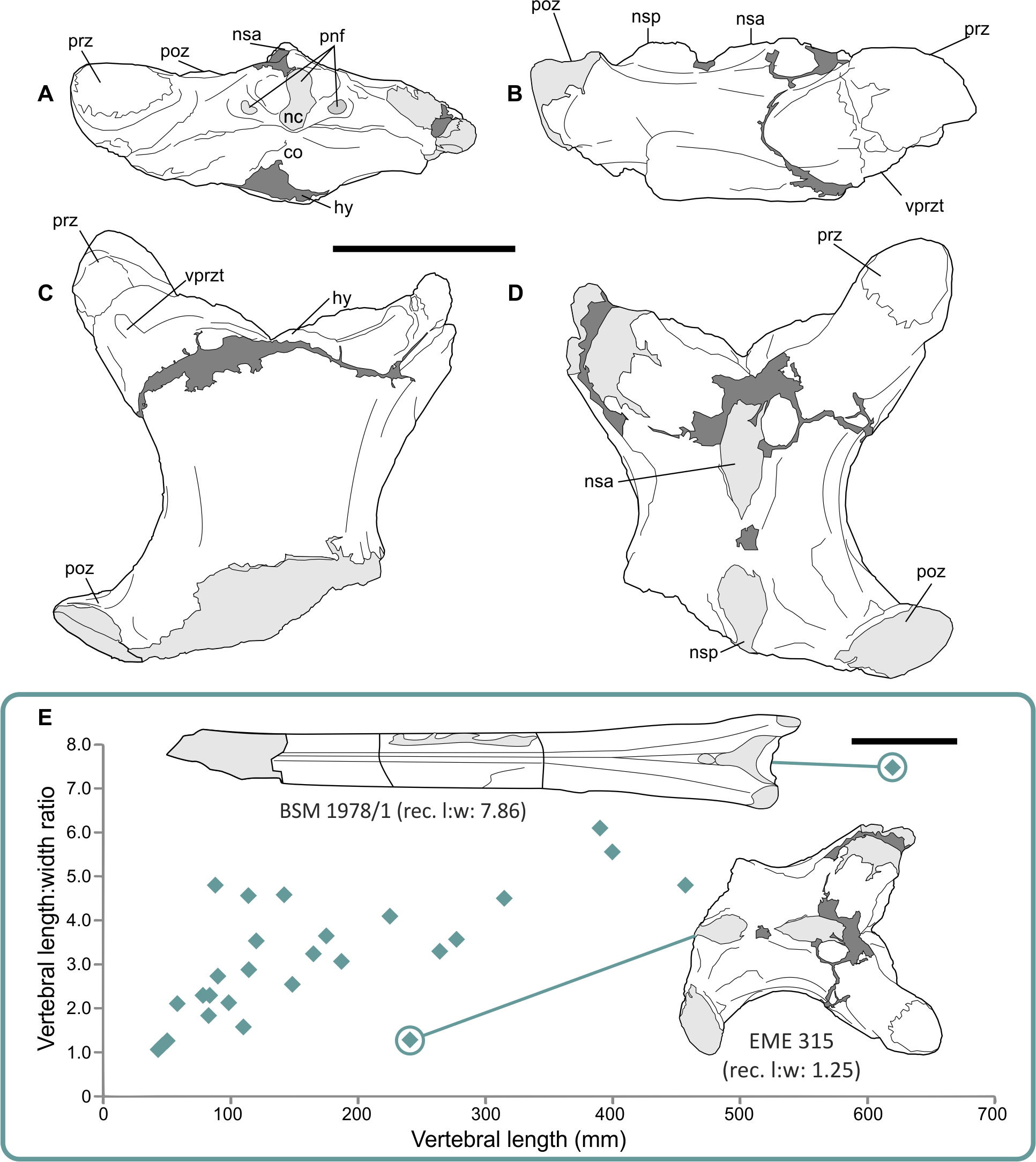 Giant azhdarchid cervical vertebra referred to Hatzegopteryx sp. (A–D) line drawings of EME 315 in anterior (A) right lateral (B) ventral (C) and dorsal (D) views; (E) proportions of EME 315 compared to other azhdarchid cervicals: note atypical combination of length/width ratio (l:w) and length compared to other azhdarchid cervicals, and especially against the only other known giant cervical, Arambourgiania (UJA RF1). Light shading indicates damage; dark shading indicates filler. Abbreviations: co, cotyle; hy, hypapophysis; nc, neural canal; nsa; neural spine (anterior region); nsp, neural spine (posterior region); pnf, pneumatic foramen; prz, prezygapophysis; poz, postzygapophysis; vprzt, ventral prezygapophyseal tubercle (fused cervical rib). Scale bar is 100 mm.